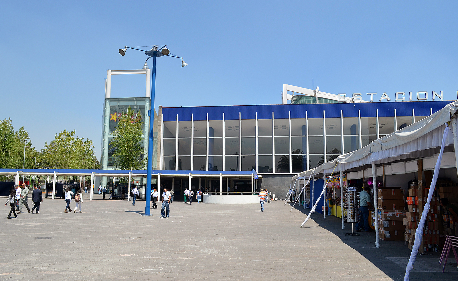 The library is located in downtown Delegación Cuauhtémoc at the Buenavista train station where the metro, suburban train, and metrobus meet. It is adorned by several sculptures by Mexican artists, including Gabriel Orozco's Ballena (Whale), prominently located at the centre of the building.